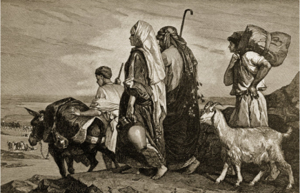 The Exile From Judah